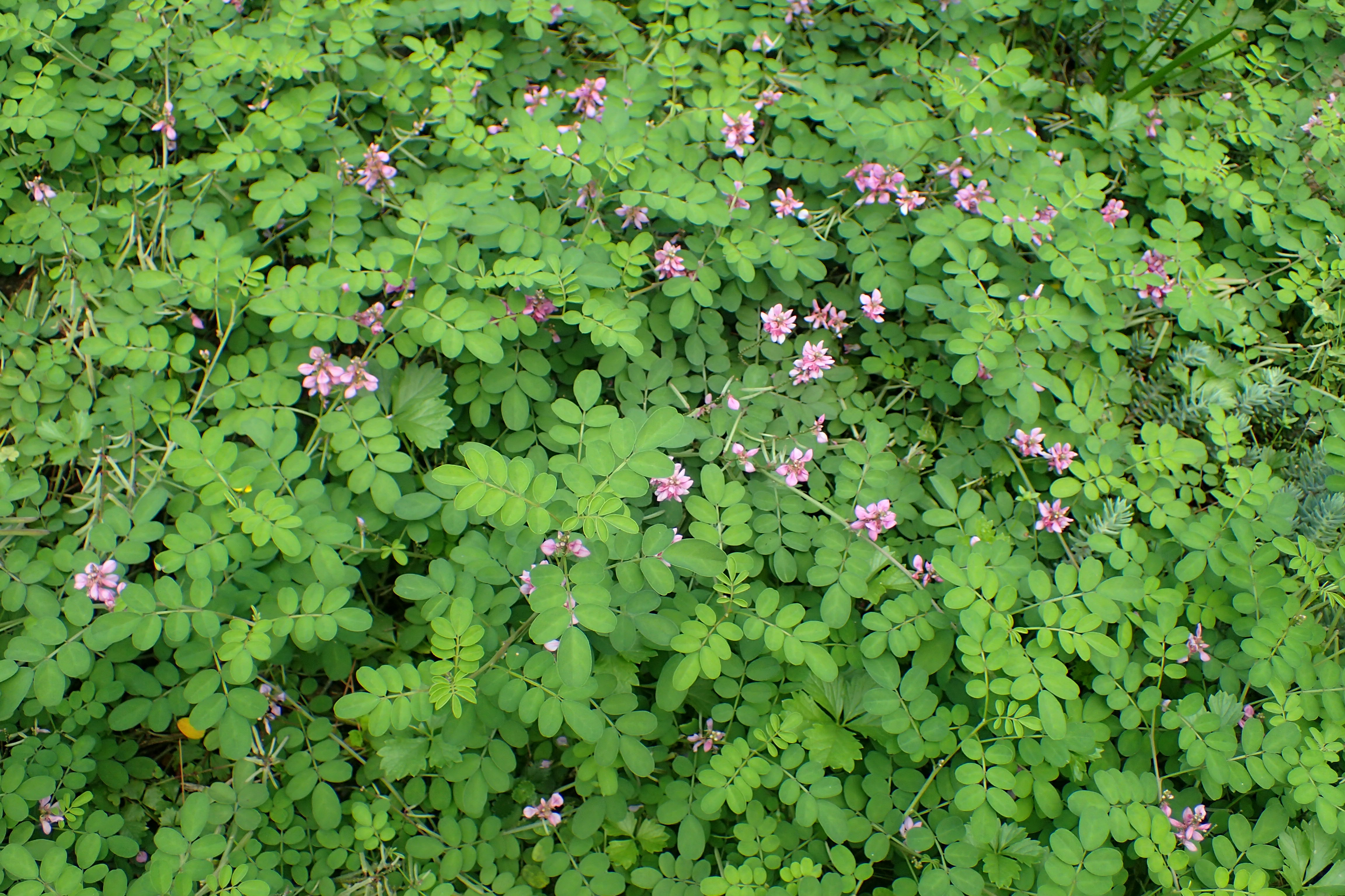 Indigofera 'Rose Carpet' at the New York Botanical Garden